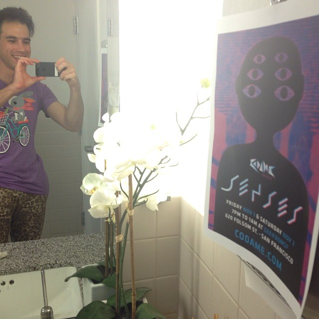 best bathroom ever! Flickr Tags: square squareformat iphoneography instagramapp uploaded:by=instagram vision:people=099 vision:face=099 vision:outdoor=0514 vision:street=069 foursquare:venue=5226083b11d2d4ee994a3a4d . venue: Geekdom SF (Coworking Space and Tech Startup) San Francisco, CA, United States